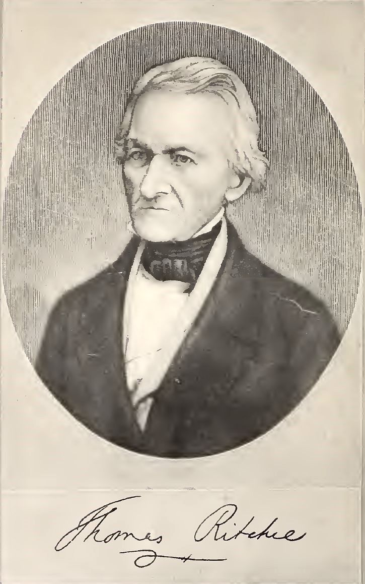 Portrait of Thomas Ritchie, taken from biography by Charles Henry Ambler, 1913